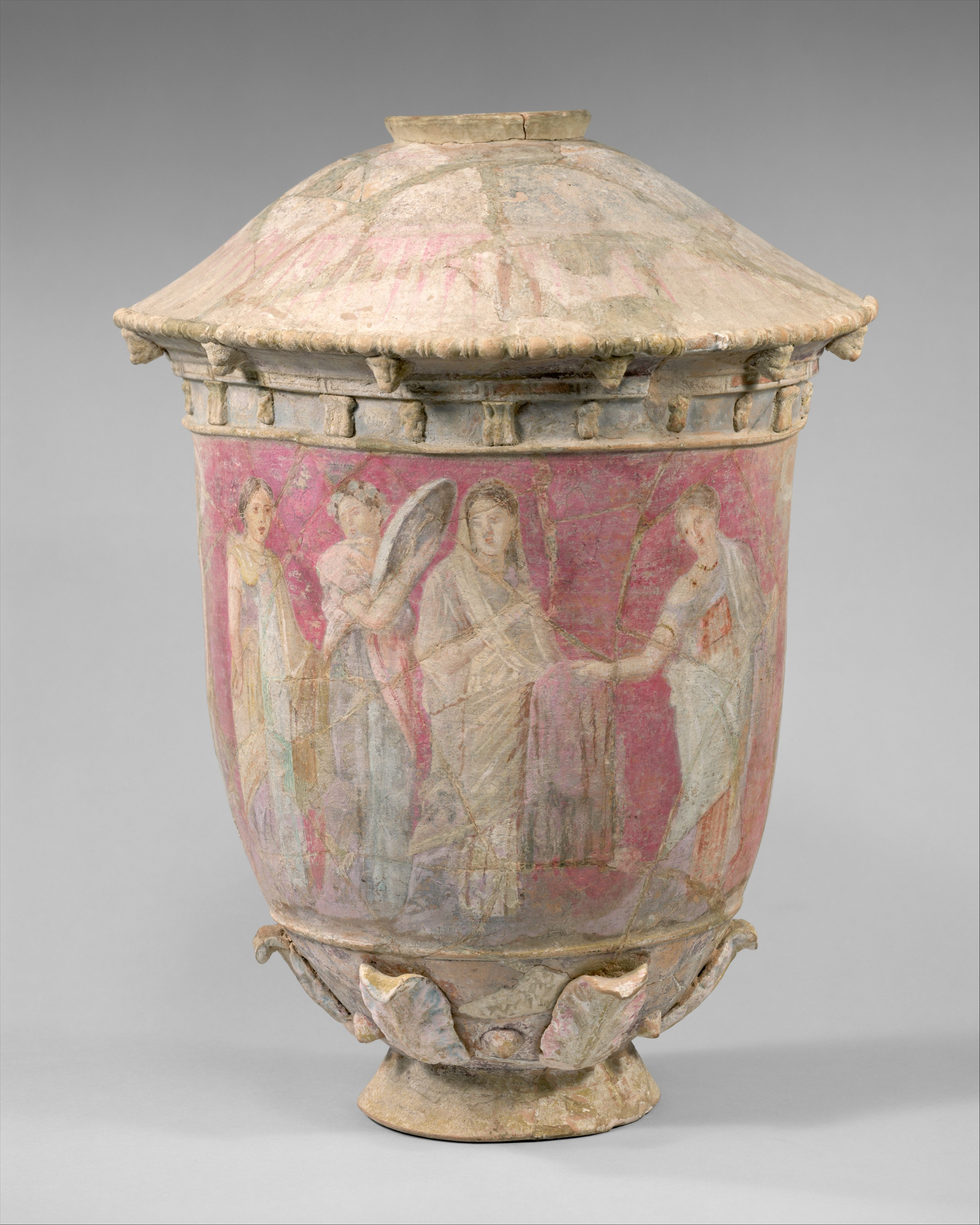 Greek, Sicilian, Centuripe; Vase, funerary, wedding scene; Vases